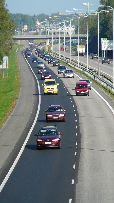 Finnish national road 51 (Länsiväylä) in Nöykkiö, Espoo, Finland